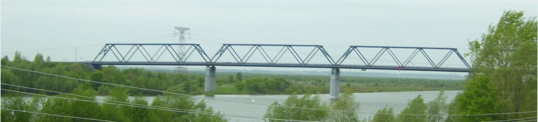 Bridge of the M7 highway over the Sura river near Yadrin